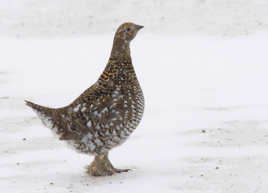 Russia, Far East, Khabarovsky Region, Amut lake